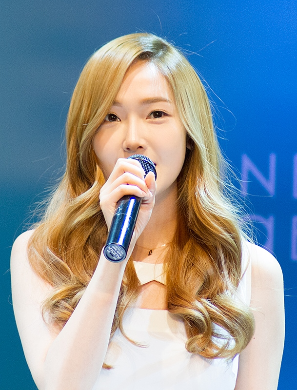 Jessica Jung at a autograph session in August 31, 2013.